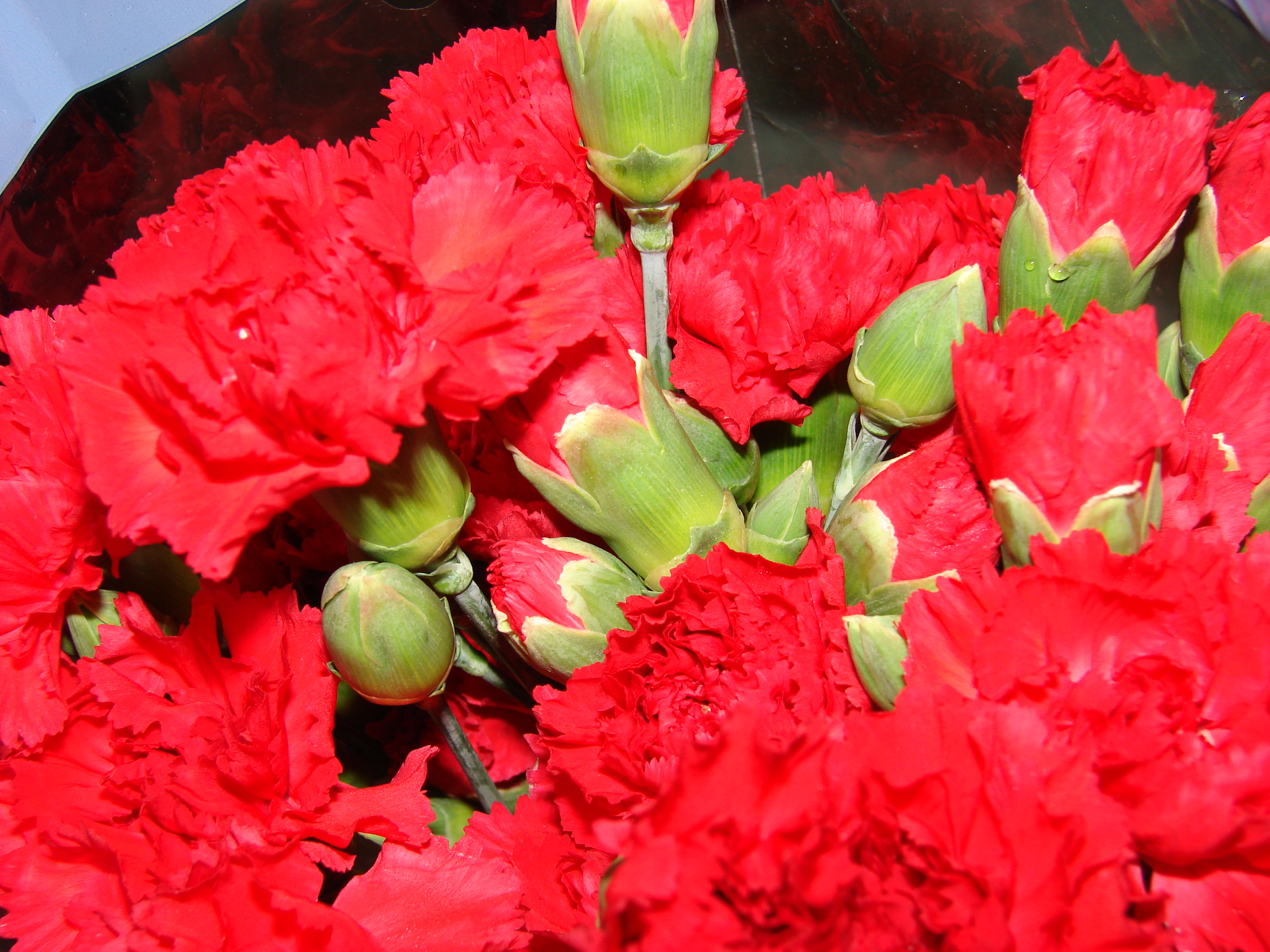 Dianthus caryophyllus (flowers red). Location: Maui, Foodland Pukalani